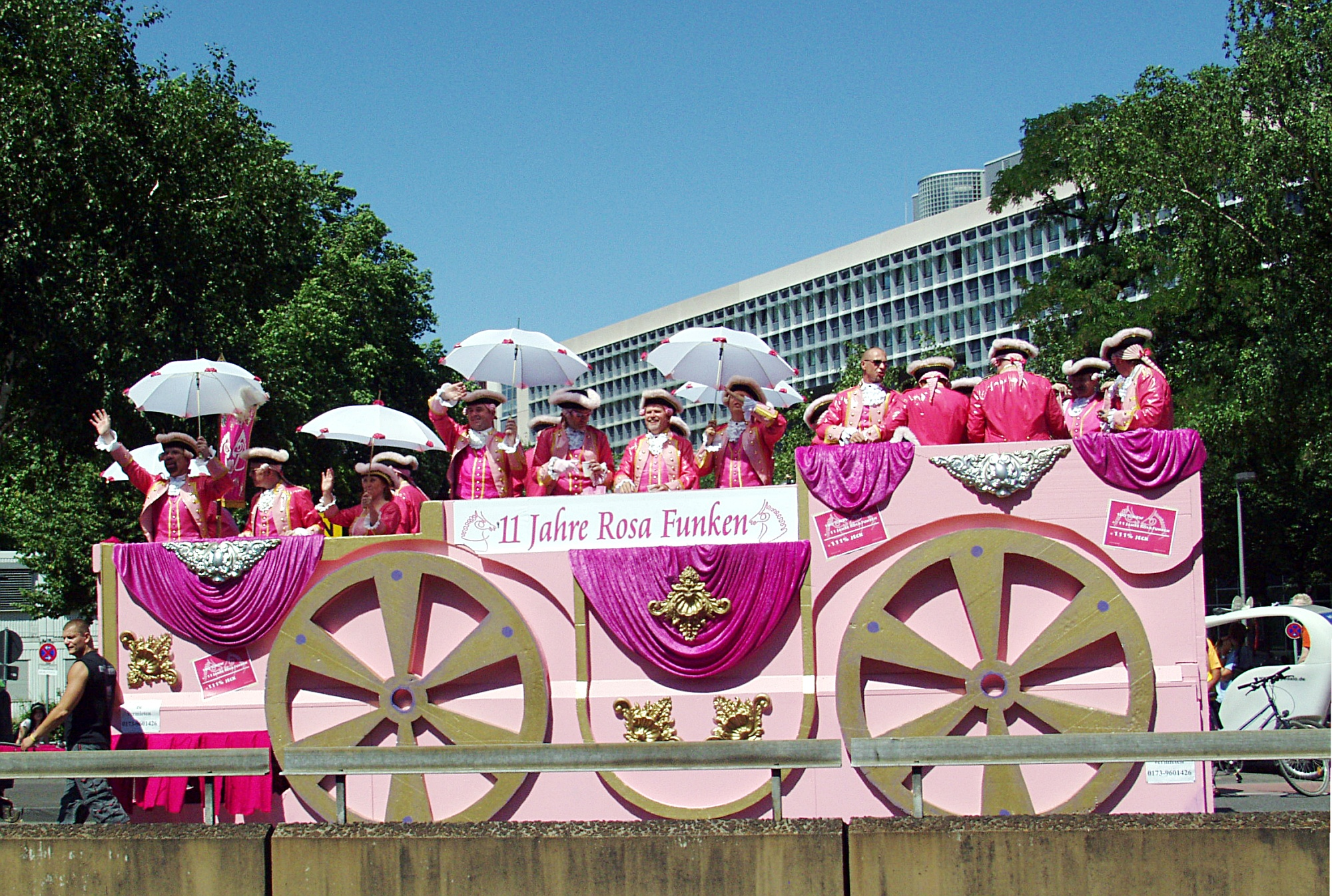 Rosa Funken in Cologne, Germany during ColognePride 2006.